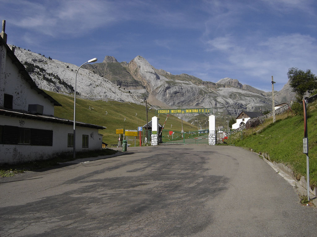 Military camp of Candanchú, Aragon valley